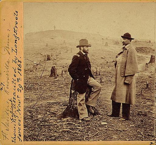 Engineers O.E. Babcock (left) and Orlando Poe (right) at Fort Sanders in Knoxville, Tennessee, USA, shortly after the failed Confederate assault on the fort. The inscription on the left reads: "Ft. Sanders, Knoxville, Tenn.: Showing salient assaulted by Longstreet's forces Nov. 29th 1863.